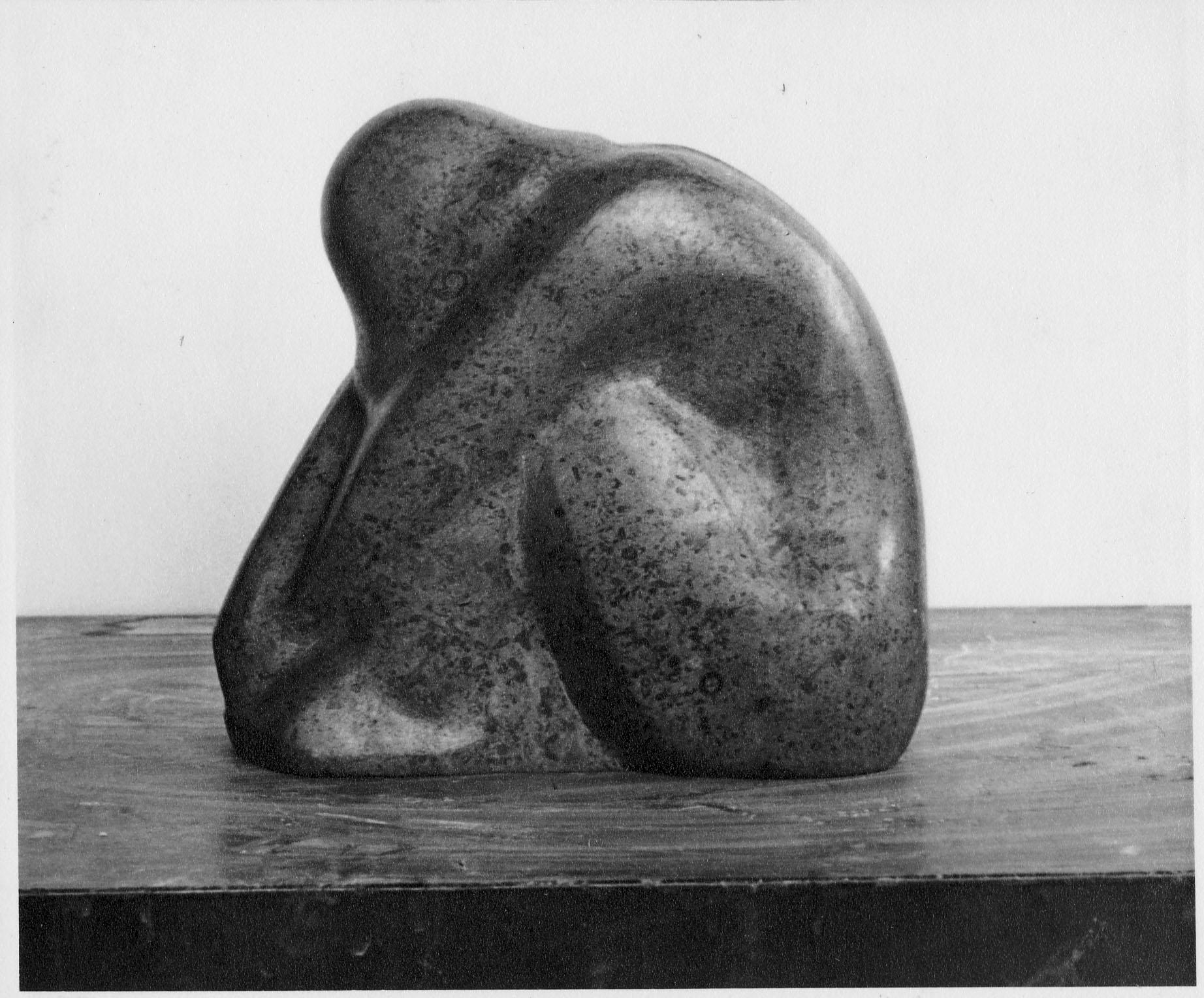 Photograph of an unnamed statue by Ann Henderson